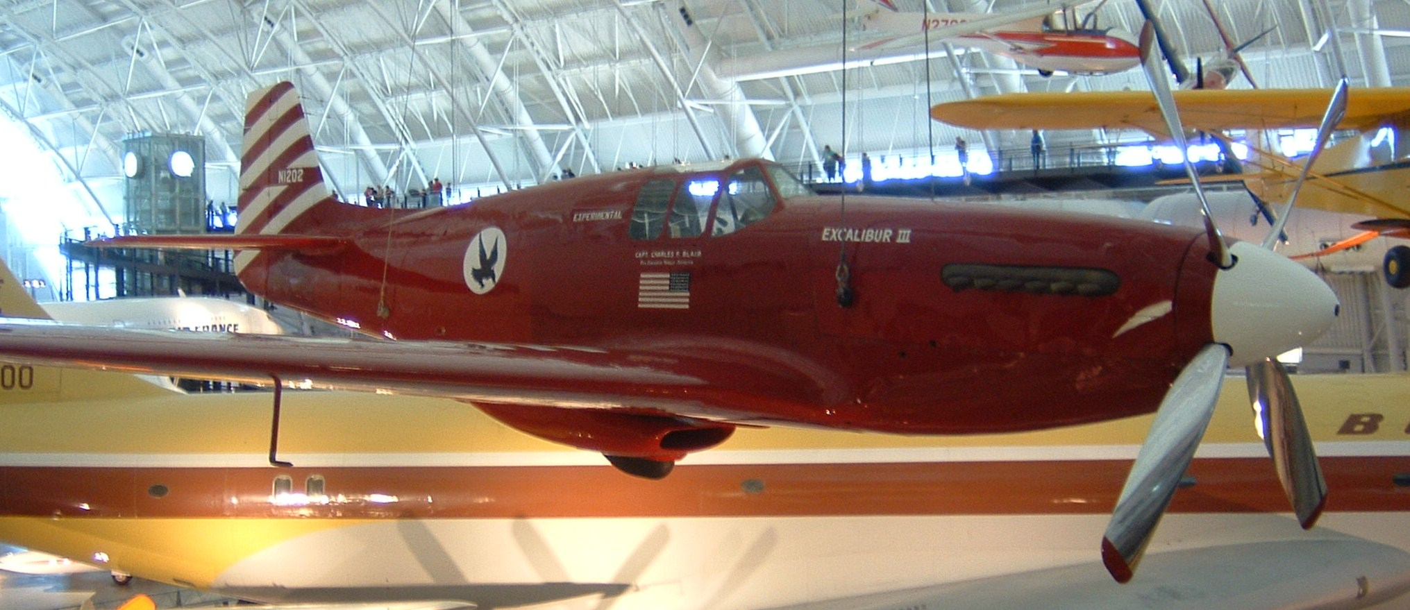 P-51C Excalibur III at the Udvar-Hazy Center of the Smithsonian National Air and Space Museum.